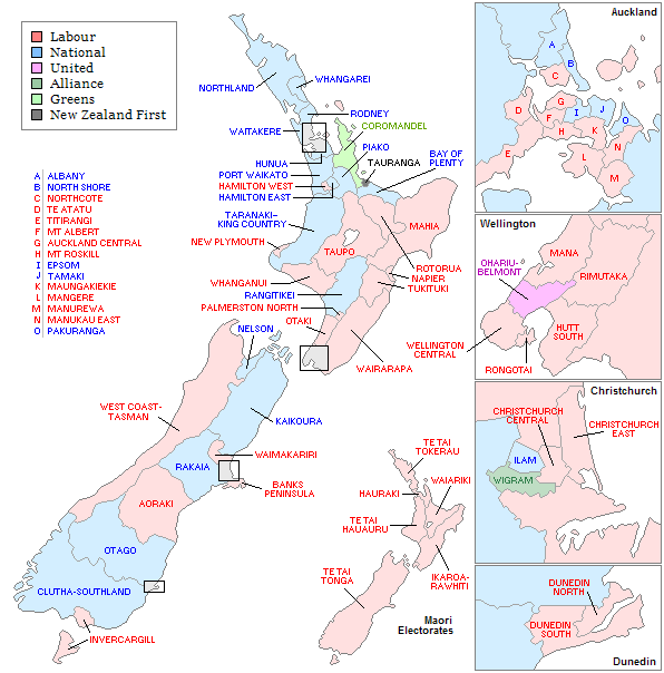 Election map depicting the electorate results of the New Zealand general election, 1999. Colours denote the party affiliation of the winning electorate candidates.